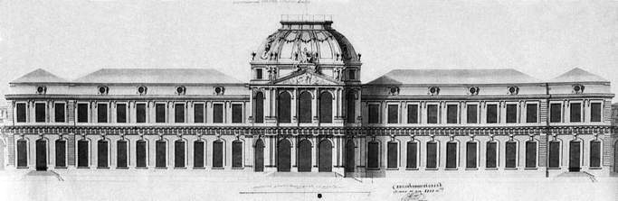 Jean Baptiste Alexandre Le Blond. The project of the palace in Strelna. The facade to the sea. 1717